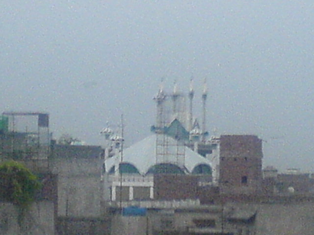 Mosque in Daska